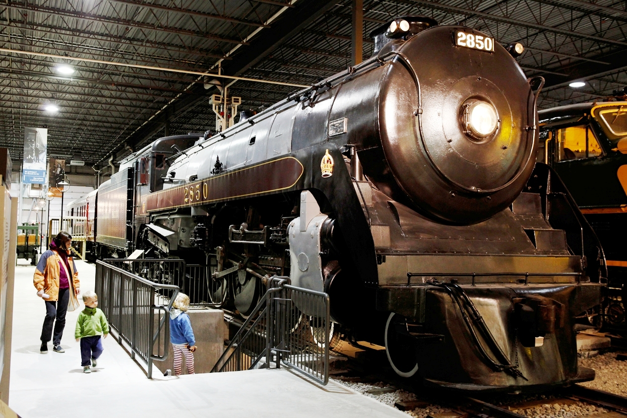 Canadian Pacific Railway H1d class "Royal" Hudson #2850 (Montreal Locomotive Works 69100 of 1938), at the Canadian Railway Museum. It pulled the Royal Train westbound across Canada in 1939 and received royal designation from King George VI.